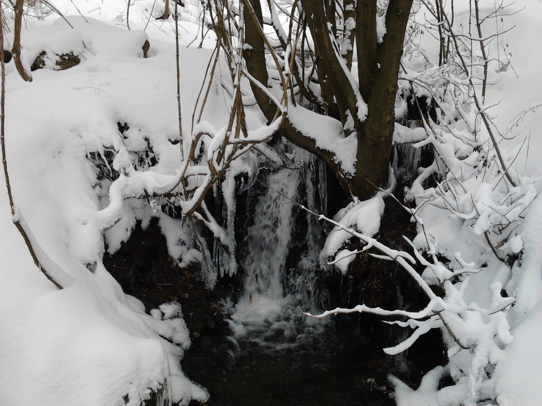 Waterfall in the Mátra.